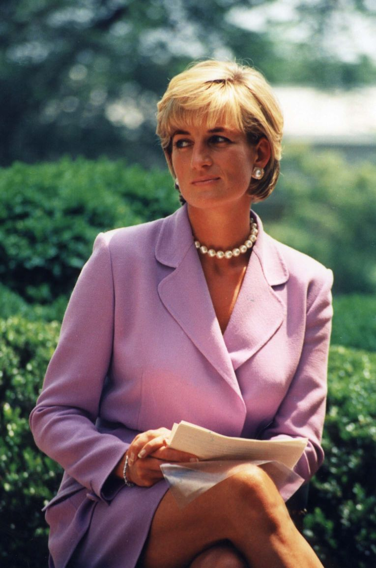 Princess diana june 17, 1997.American red cross.Washington dc Contact me for usage of this image. © copyright JohnMathewSmith 2010